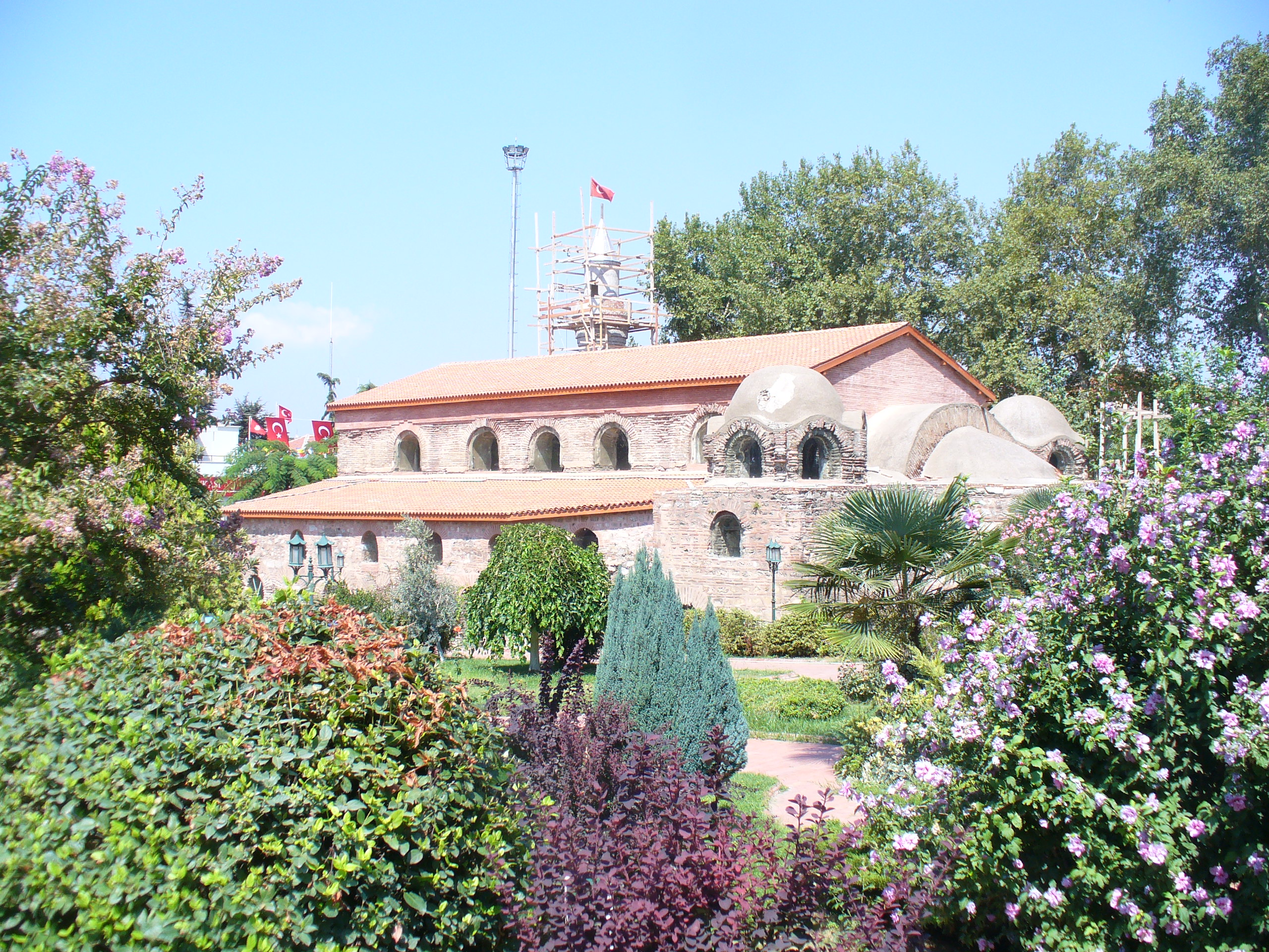 Remains of the Ayasofya in Iznik, as seen from the southeast.